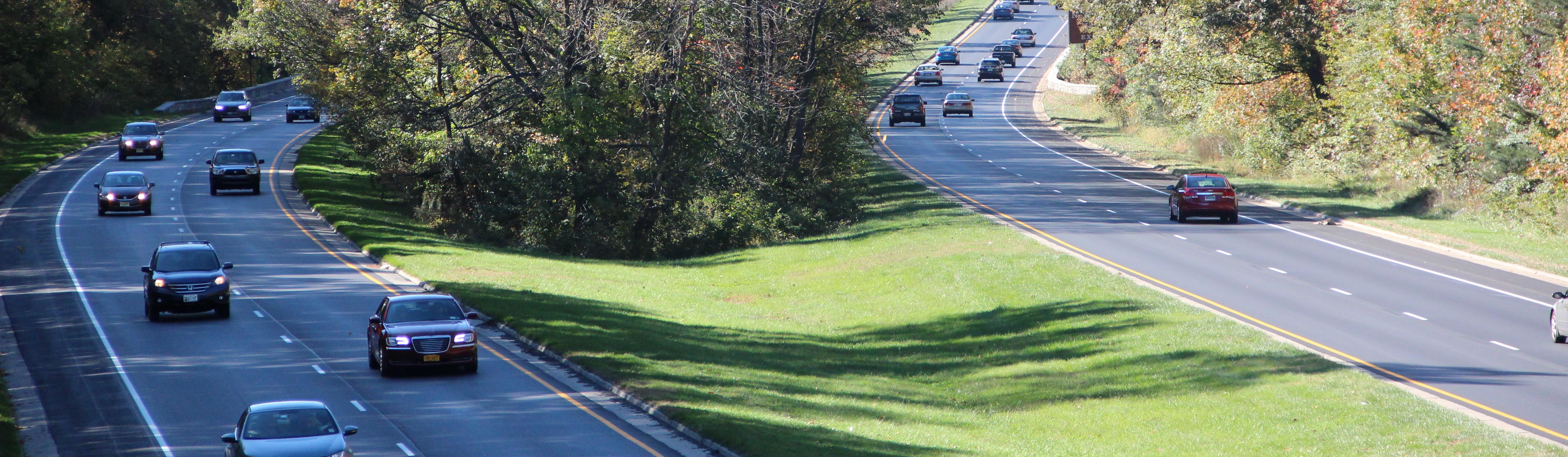 A scenic stretch of the Baltimore-Washington Parkway in Prince George's County, Maryland